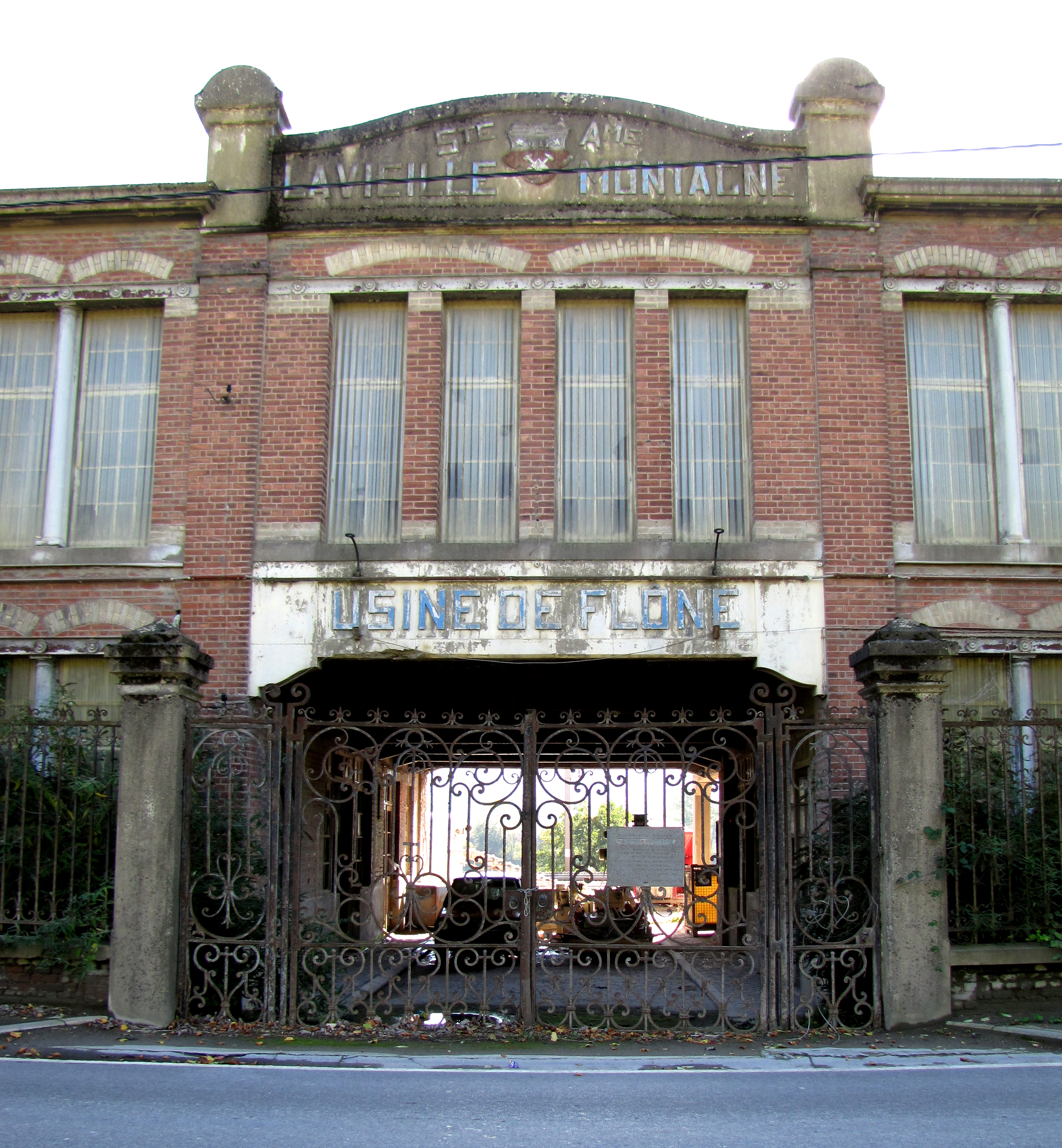 Main entrance to one of the buildings of the Company La Vieille Montagne, to Flône, Belgium.